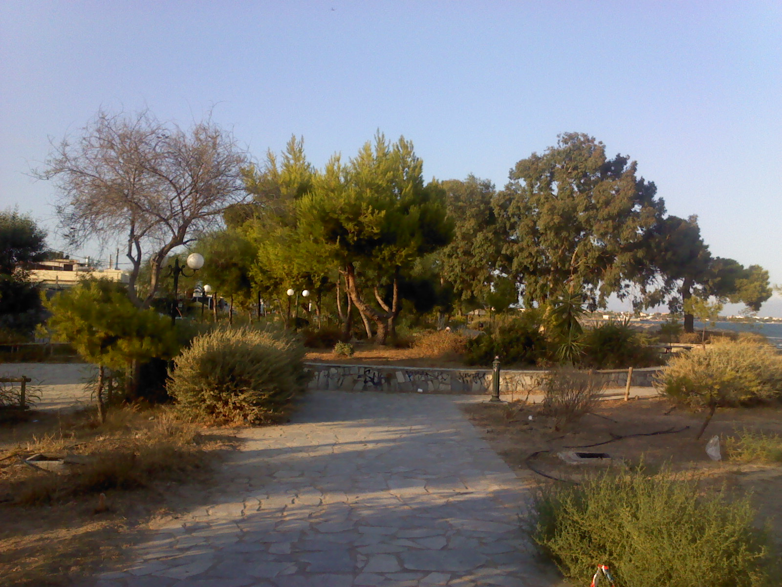 Park seaside loutsa